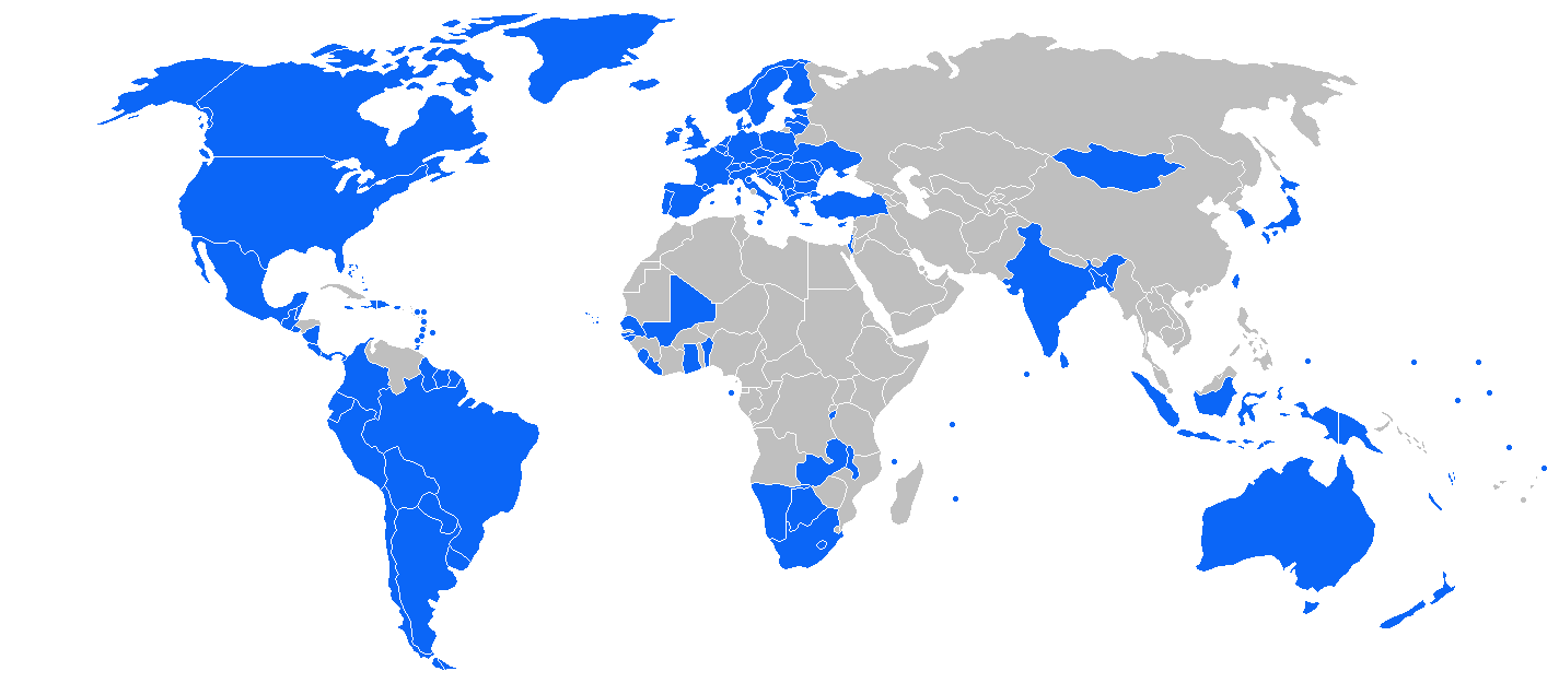 Map of electoral democracies 2009 (Freedom House)